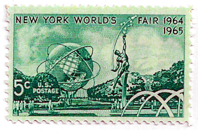 1964-1965 New York World’s Fair U.S. postage stamp - issued 145,700,000 on April 22, 1964 New York, NY - U.S. postage stamp illustrates the fair’s main mall, including the Unisphere and "Rocket Thrower" - Designer: Robert J. Jones - Engraver: A. W. Dintaman